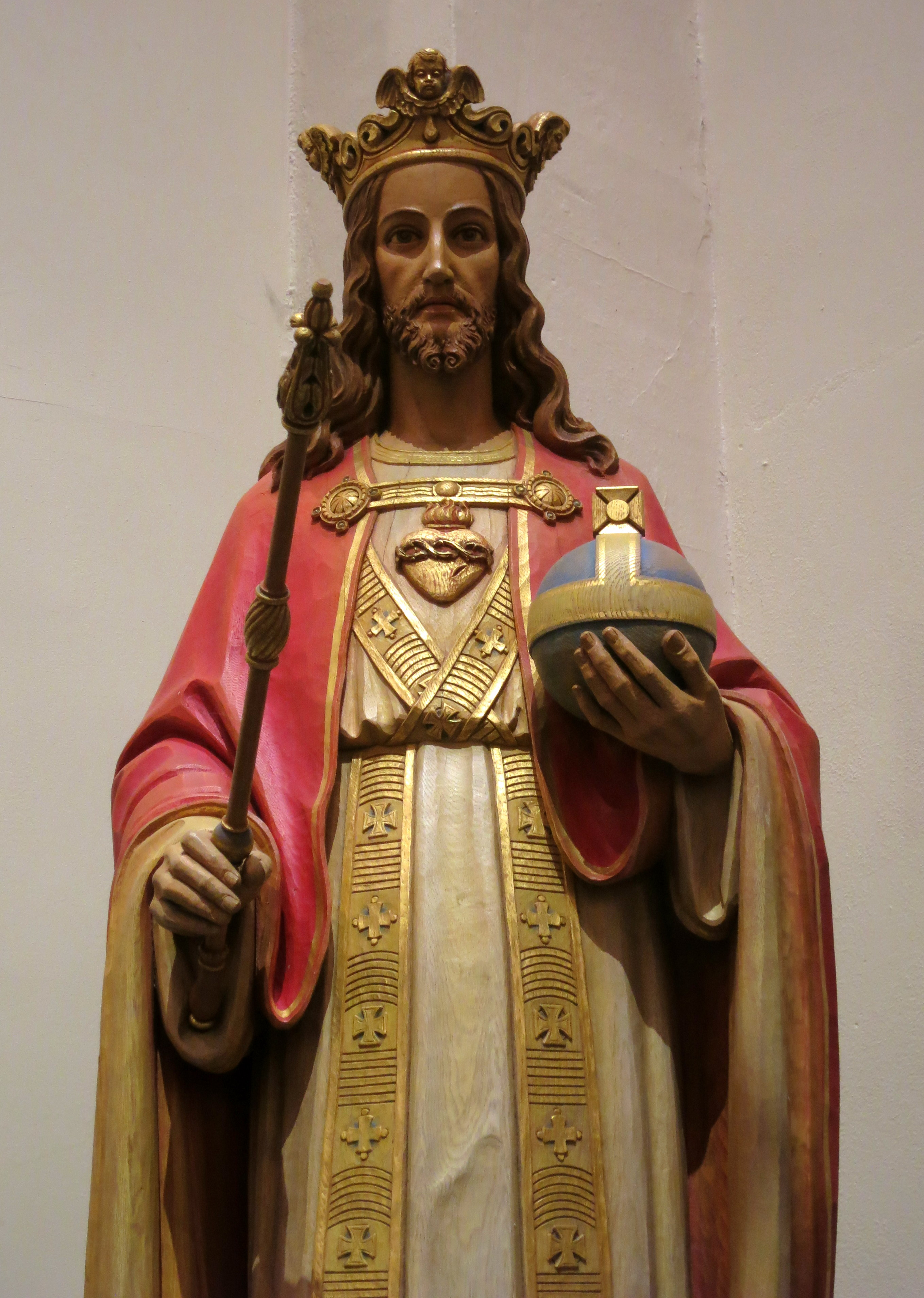 Cathedral of Saint Mary of the Immaculate Conception (Peoria, Illinois) - statue of Christ the King